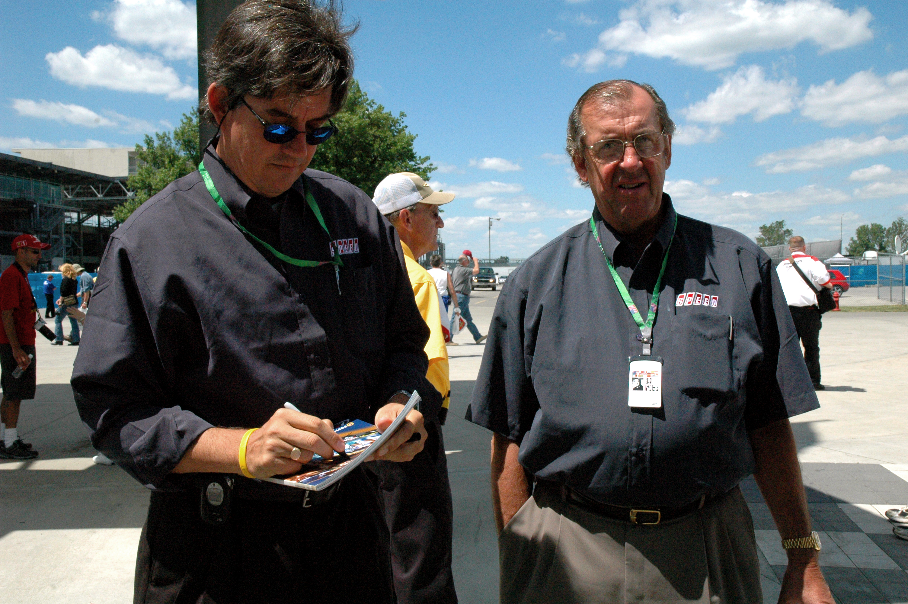 Bob Varsha and David Hobbs in the Indianapolis Motor Speedway plaza during the 2005 United States Grand Prix